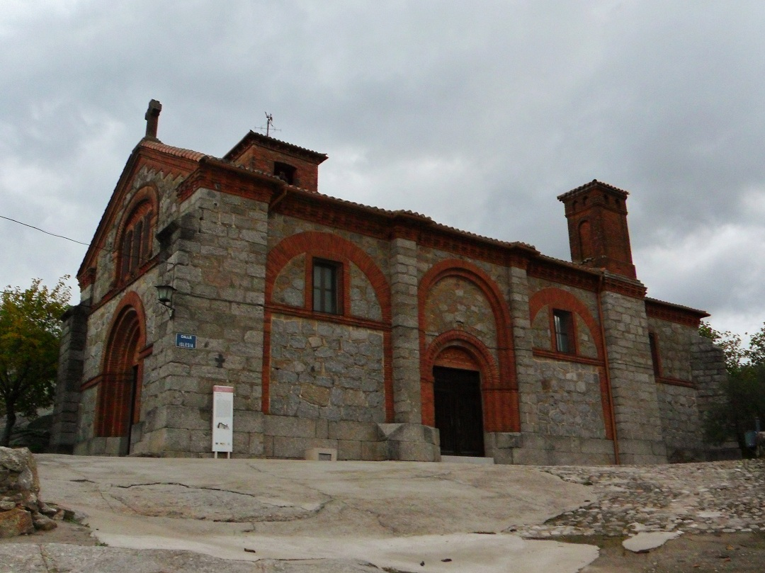 Church of Saint Peter Ad Vincula in La Parra, hamlet of Arenas de San Pedro.